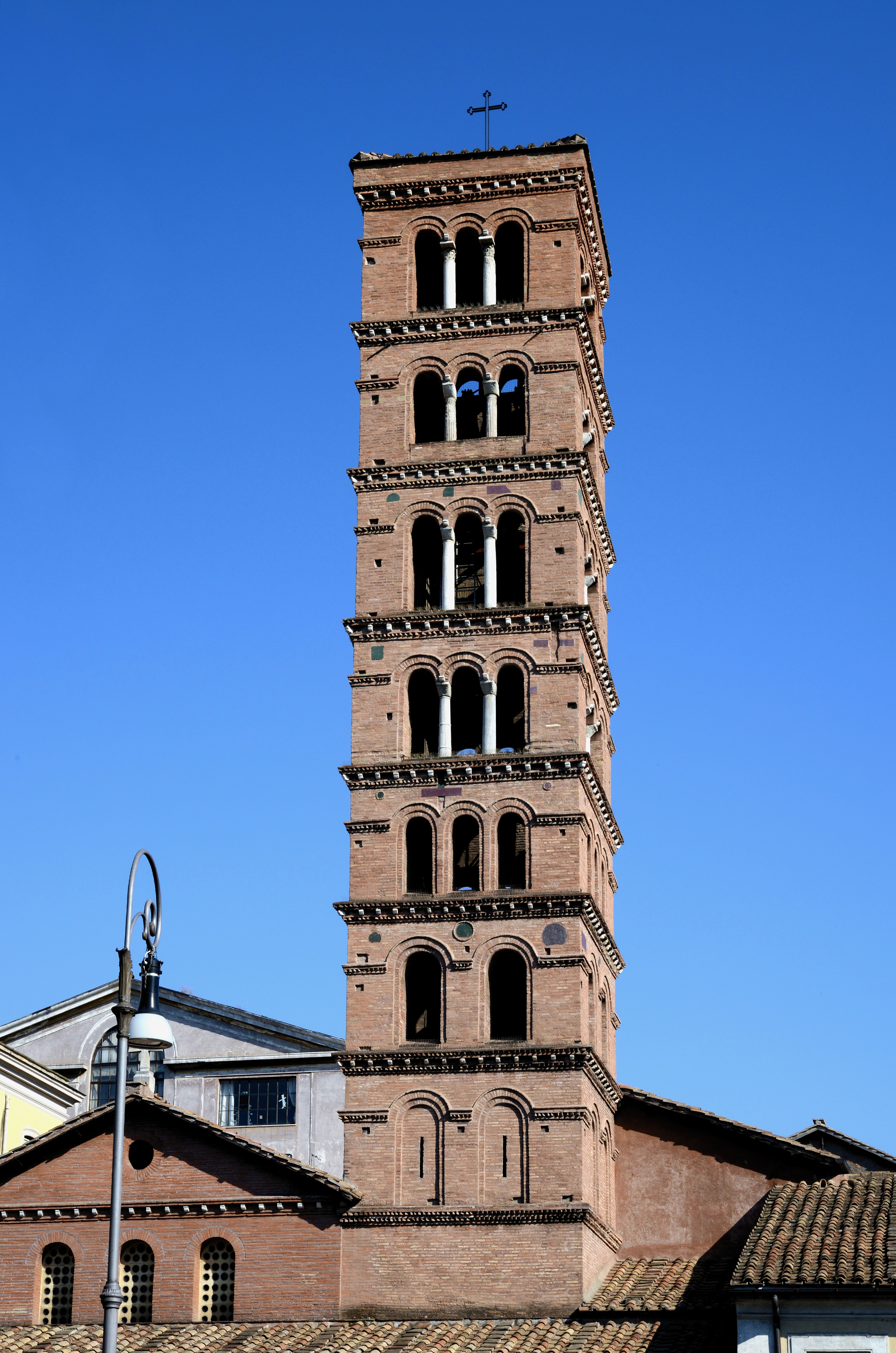 Tower of the church of Santa Maria in Cosmedin, Rome